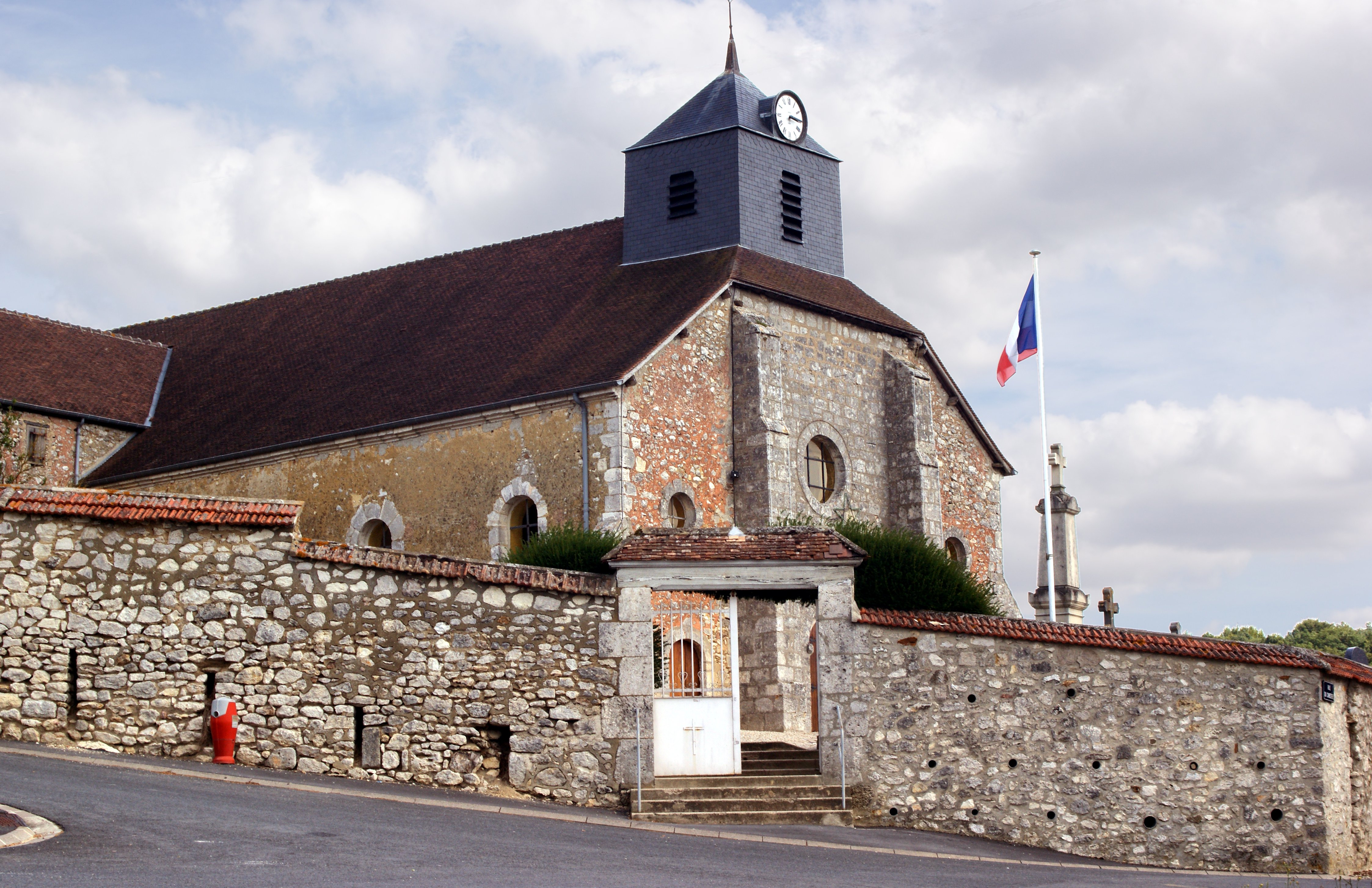 The church in Grauves (Marne, France)